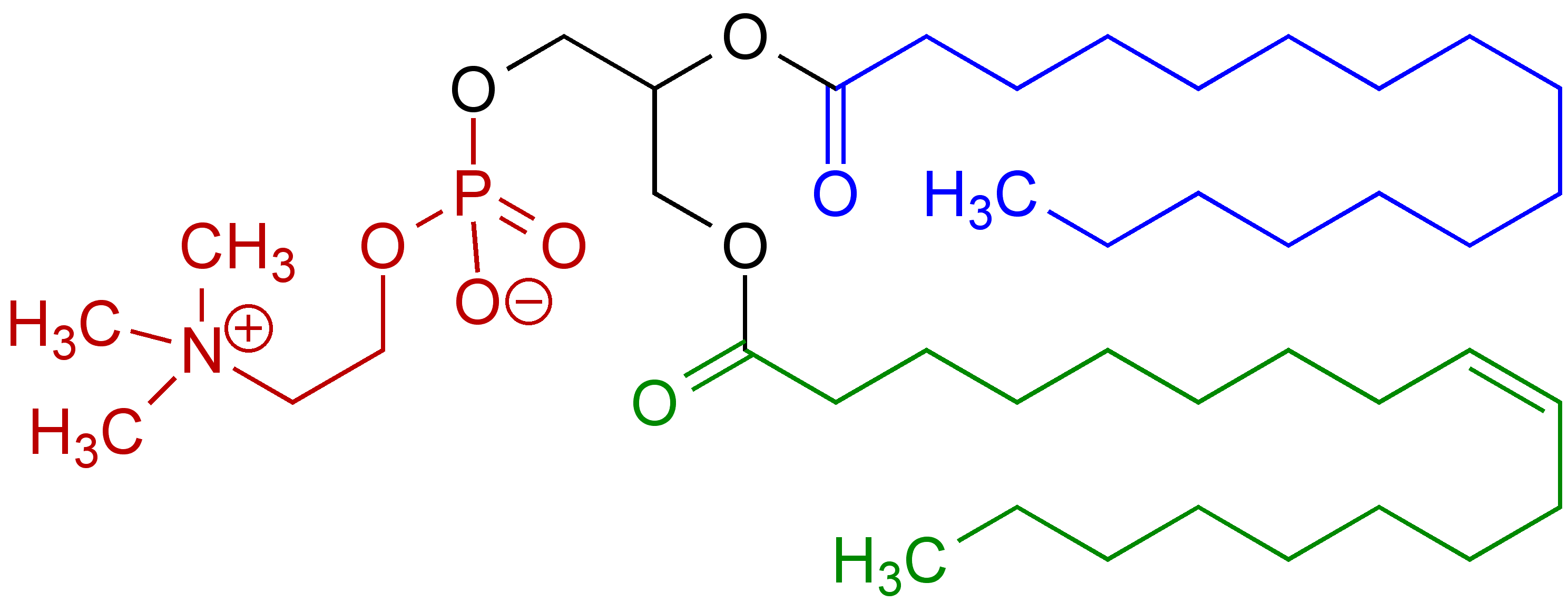 1-Palmitoyl-3-oleoyl-phosphatidylcholine_Structural_Formulae